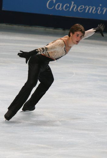 Joubert performs during his long program at the 2008 TEB.